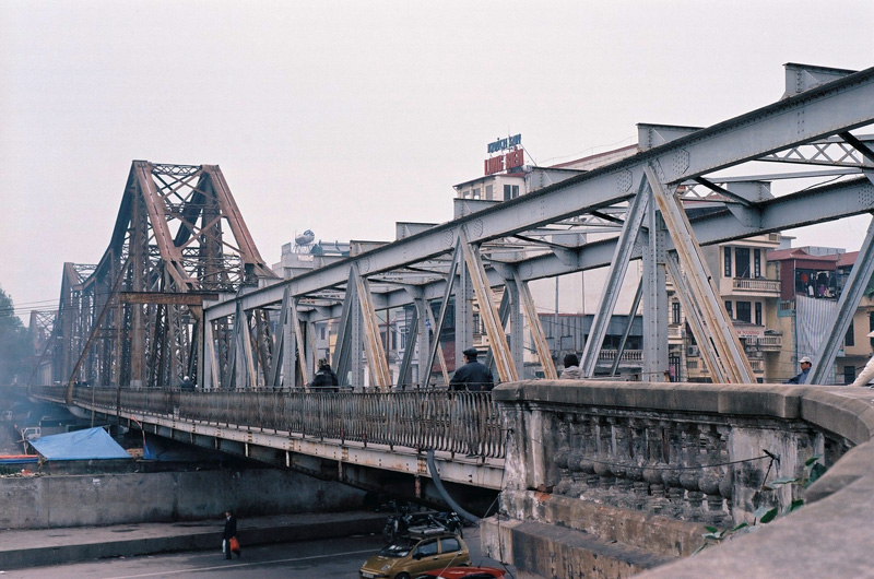 Long Bien Bridge